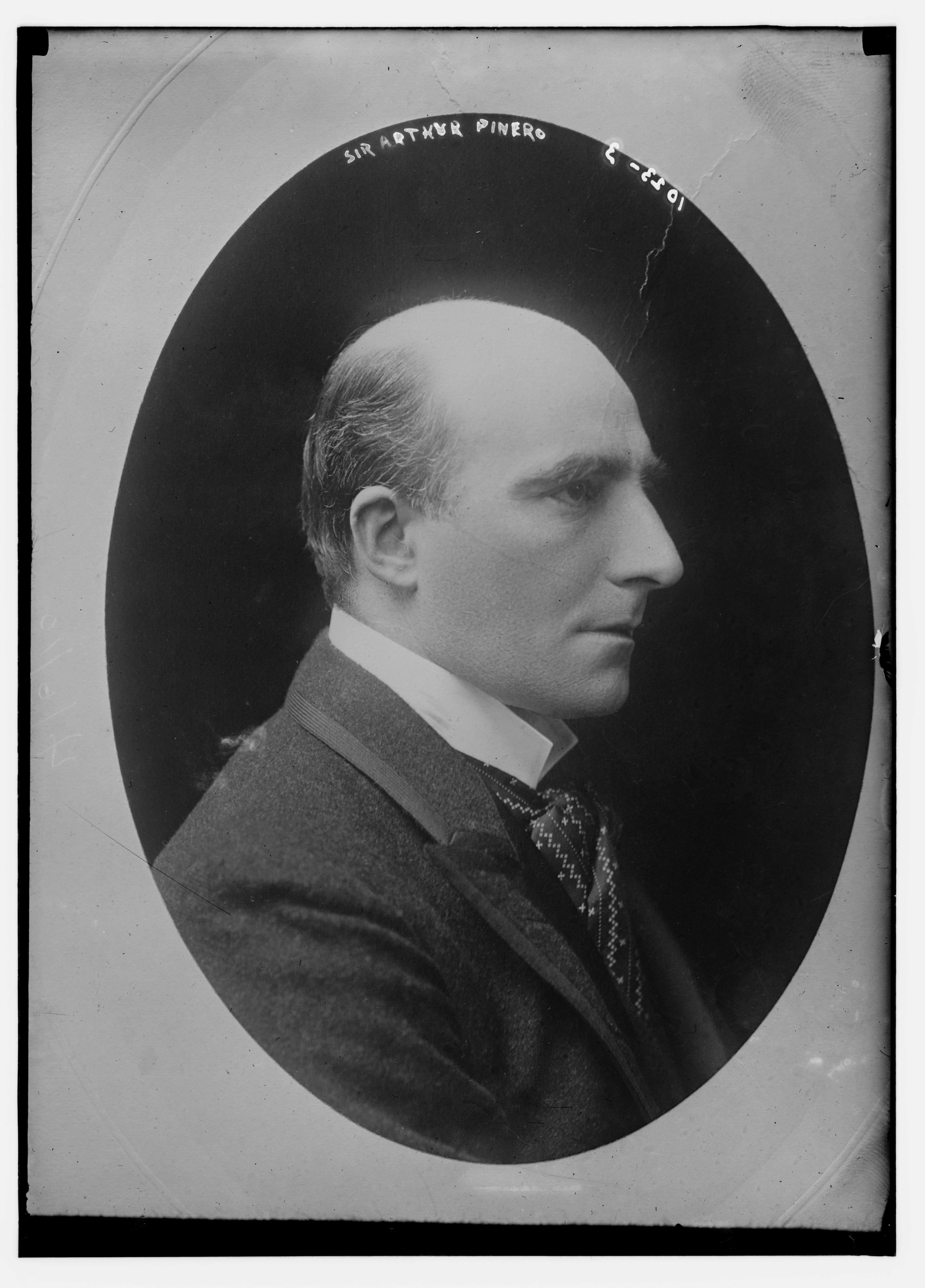 Sir Arthur Pinero